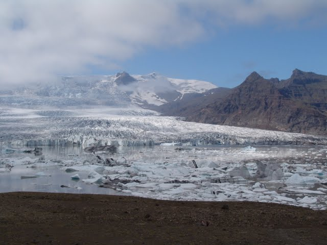 Breidamerkurjokull